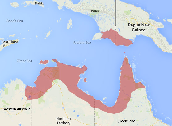 Distribution map for Chelodina oblonga, Australia and New Guinea.